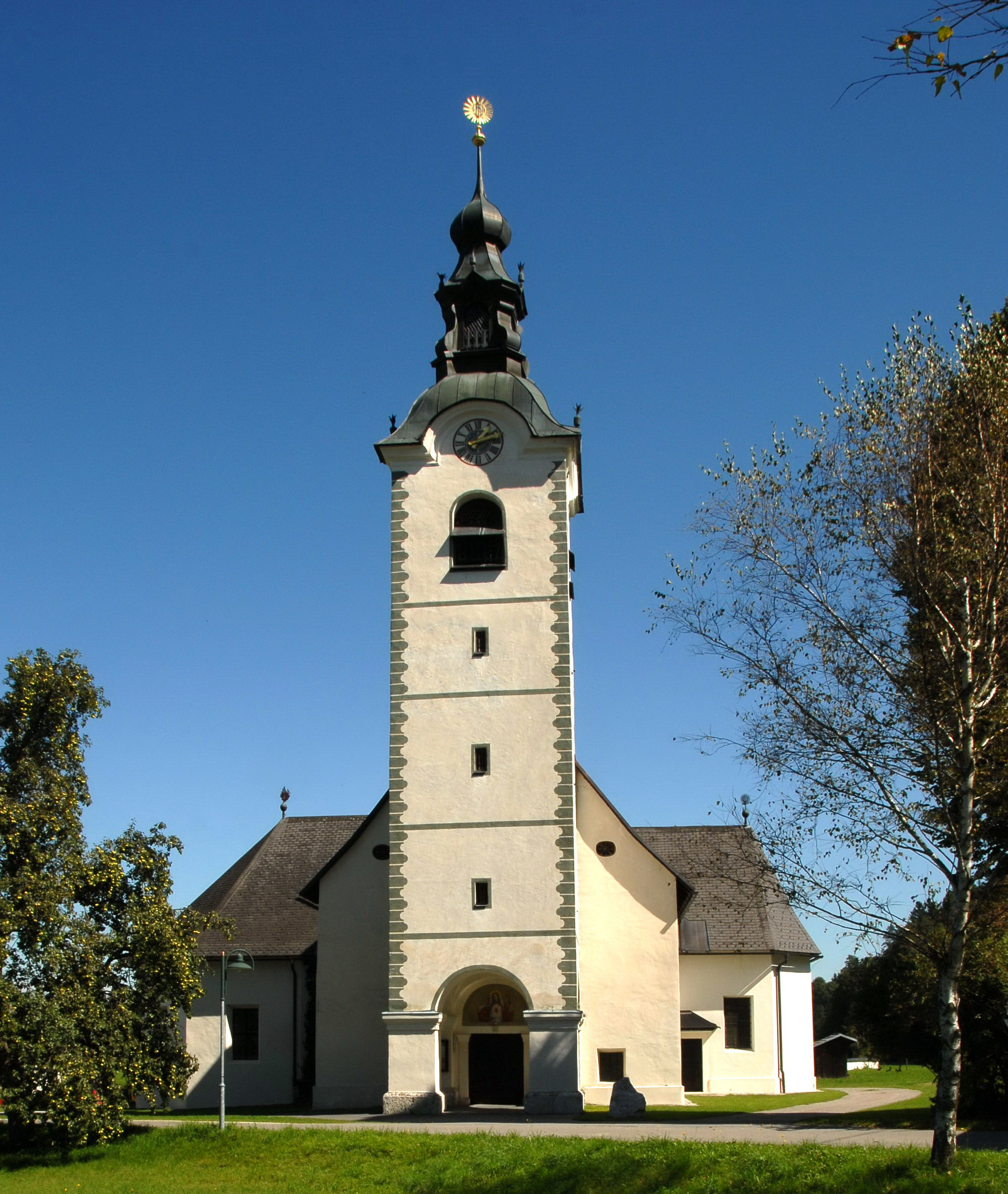 Parish church Saint John in Sankt Johann, market town Feistritz im Rosental, district Klagenfurt Land, Carinthia, Austria, EU